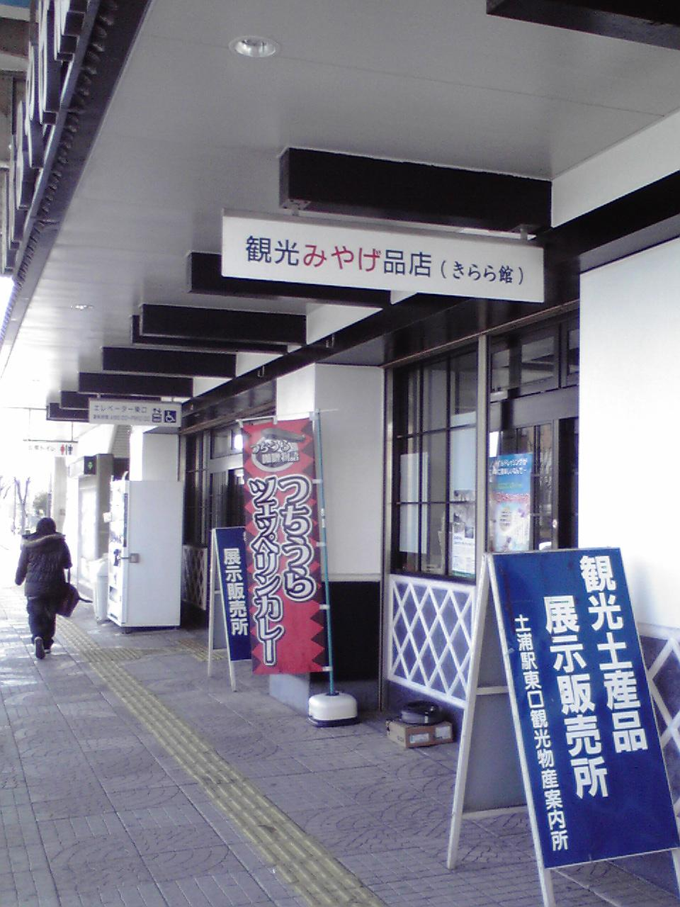 Souvenir shop in JR Jouban Line Tsuchiura station.